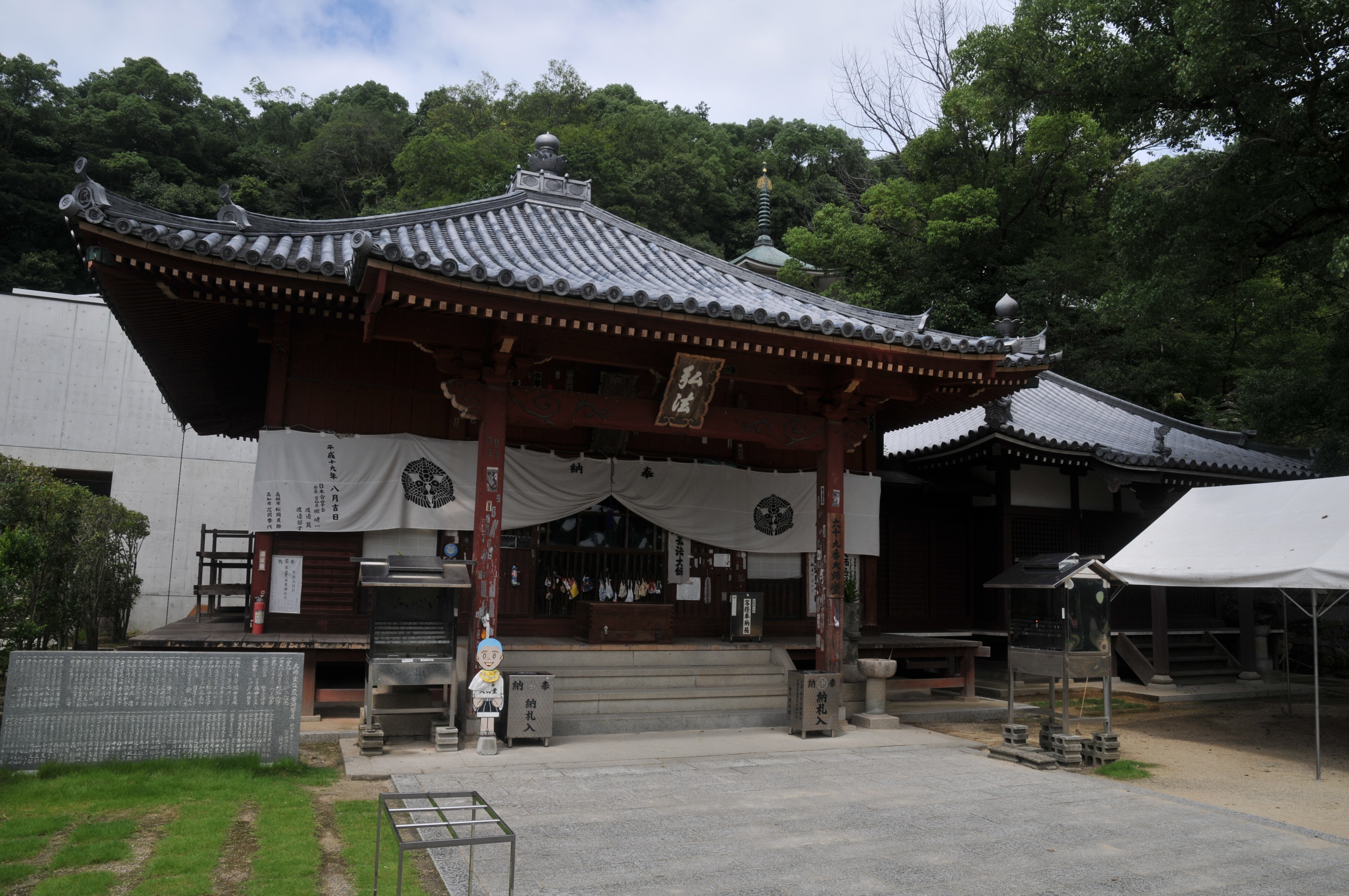 Daishi-dō(left side) and Aizen-dō(right side), Kannon-ji